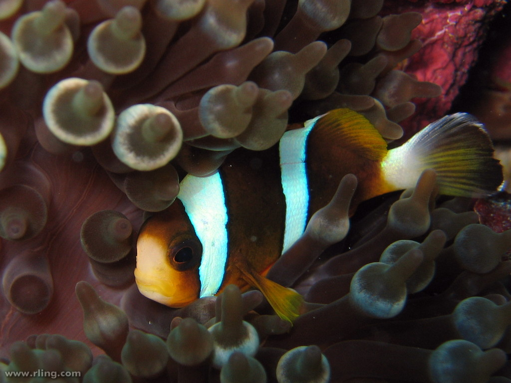 A Barrier Reef Anemonefish (Amphiprion akindynos) in host anemone. Pixie Garden, Ribbon Reefs, Great Barrier Reef